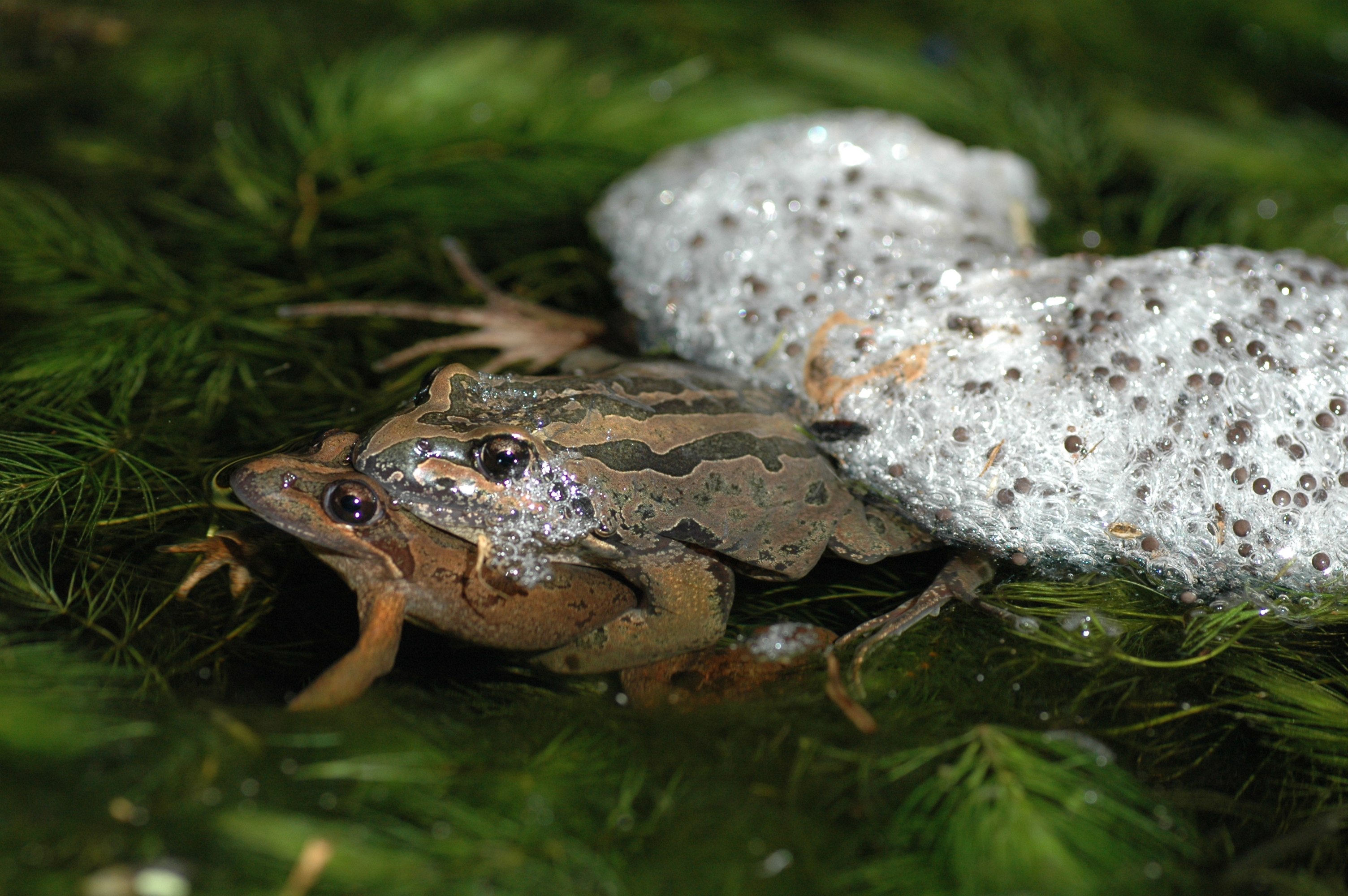 A pair of breeding Stripped Marsh Frogs (Limnodynastes peronii) found in Sydney.